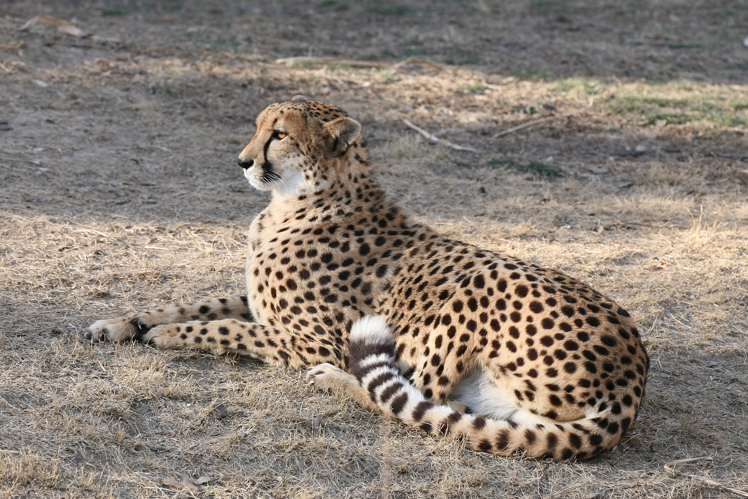 Cheetah in the St. Louis Zoo